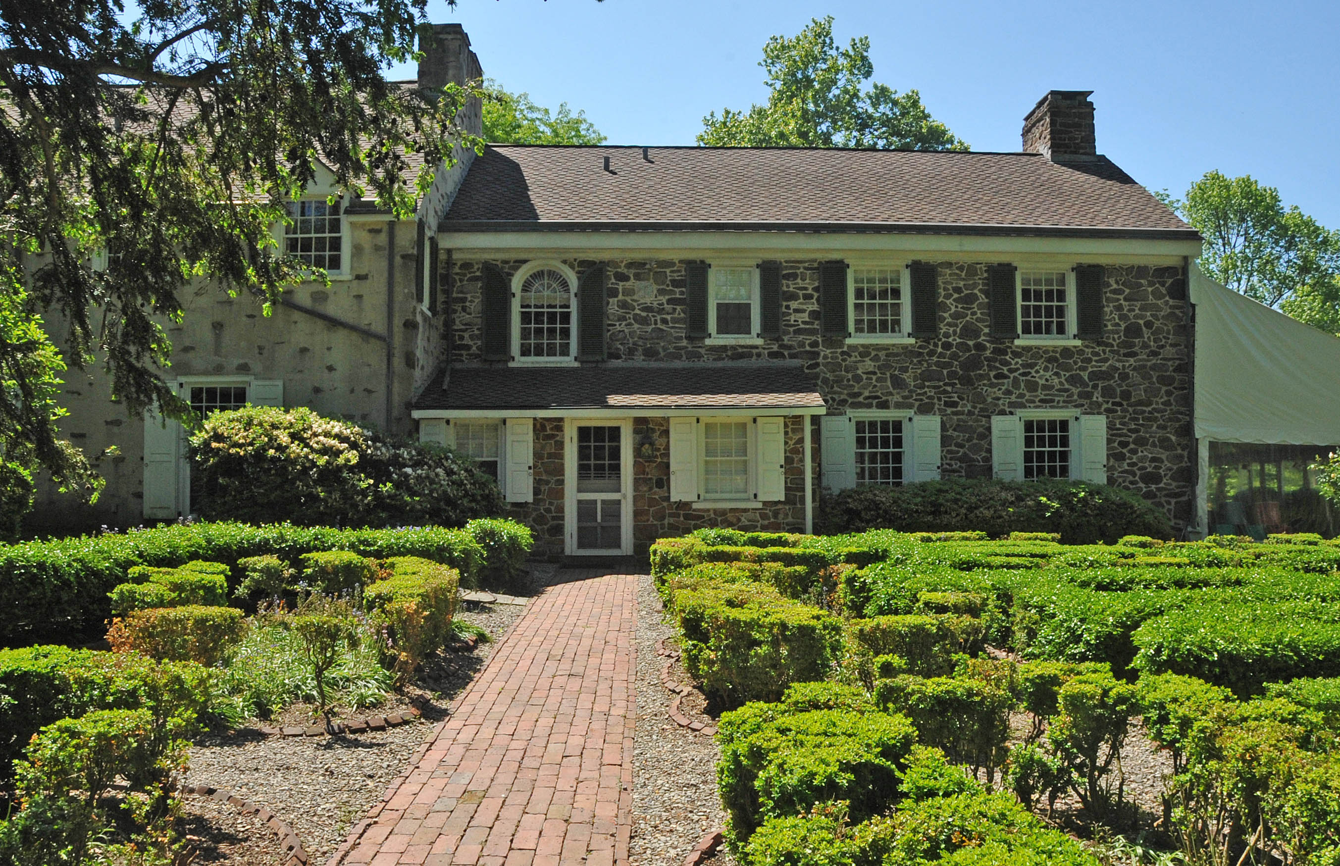 THE ARBORETUM IS SITUATED ON A 22 ACRE GRANT GIVEN BY WILLIAM PENN TO JAMES MOORE IN 1682. THE STONE FARMHOUSE WAS BUILT IN THE EARLY TO THE LATE 18TH CENTURY.